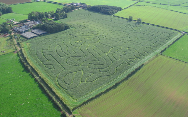 Hay Close Farm Maize Maze, Cumbria, Great Britain